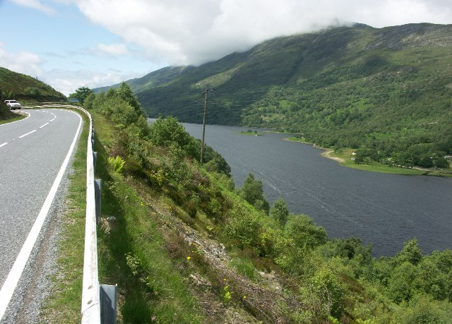 B863 on South Side of Loch Leven.